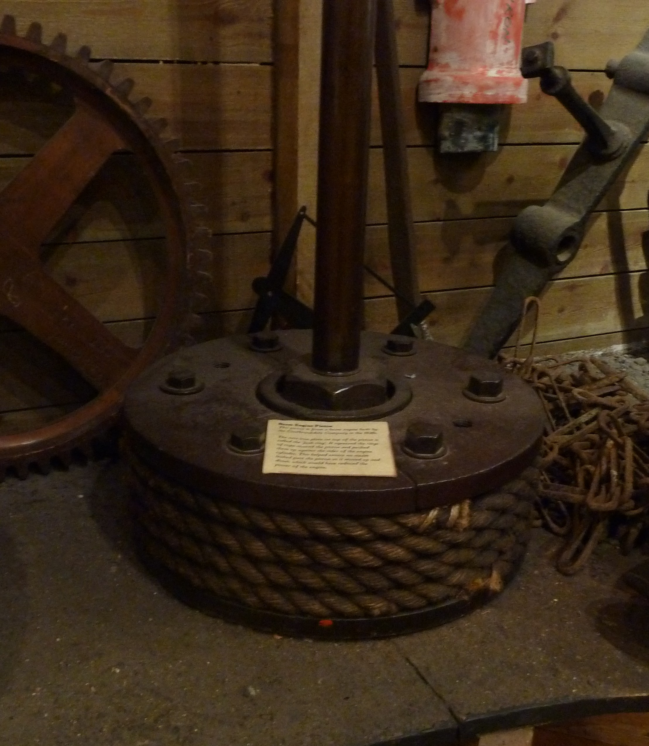 1830s beam engine piston with rope seal, Coalbrookdale Museum of Iron